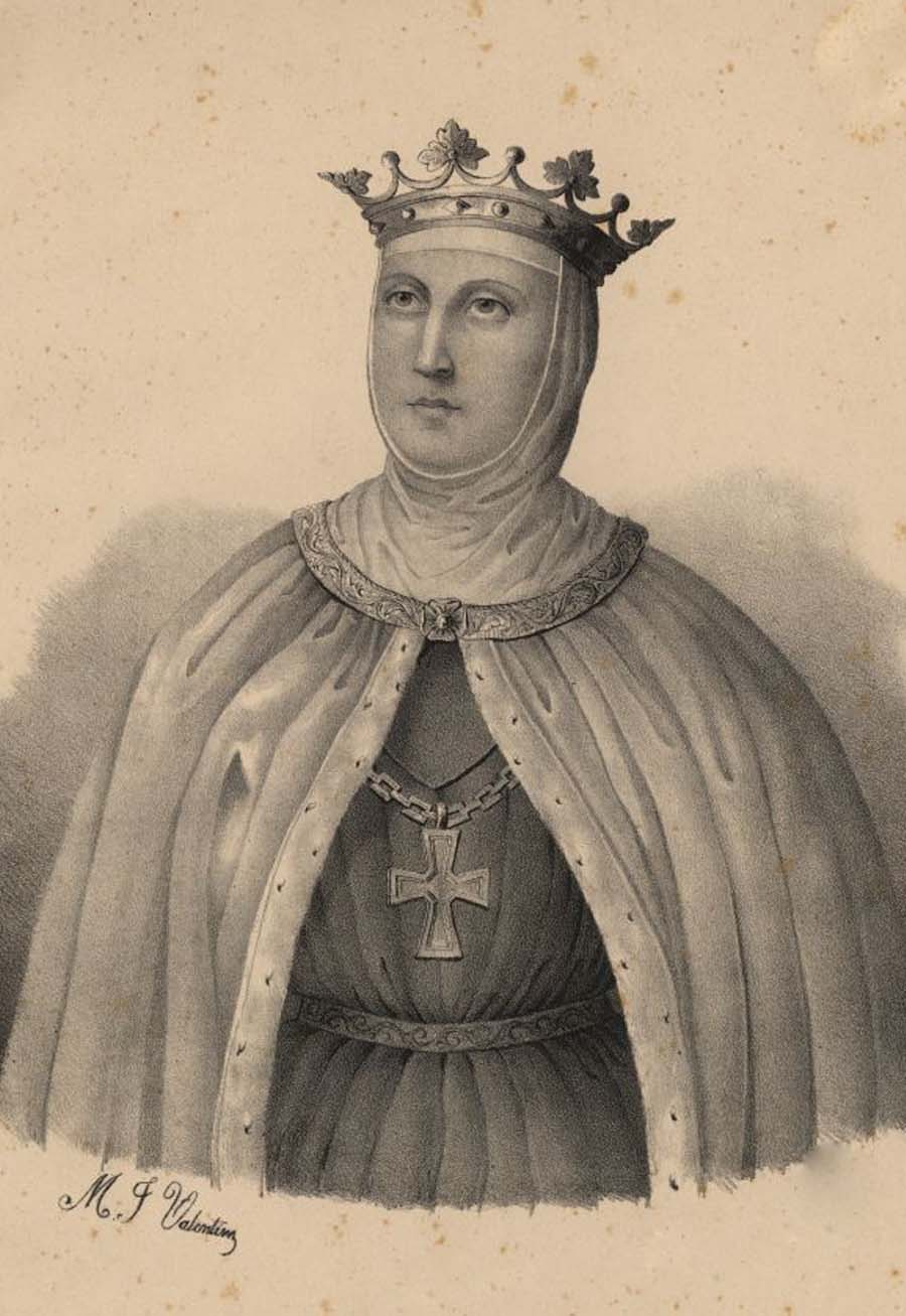 Beatrice of Castile (1242–1303)